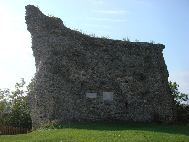 Remains of Clare castle keep. What remains of Clare castle's stone keep located on top of the motte pictured here 705737